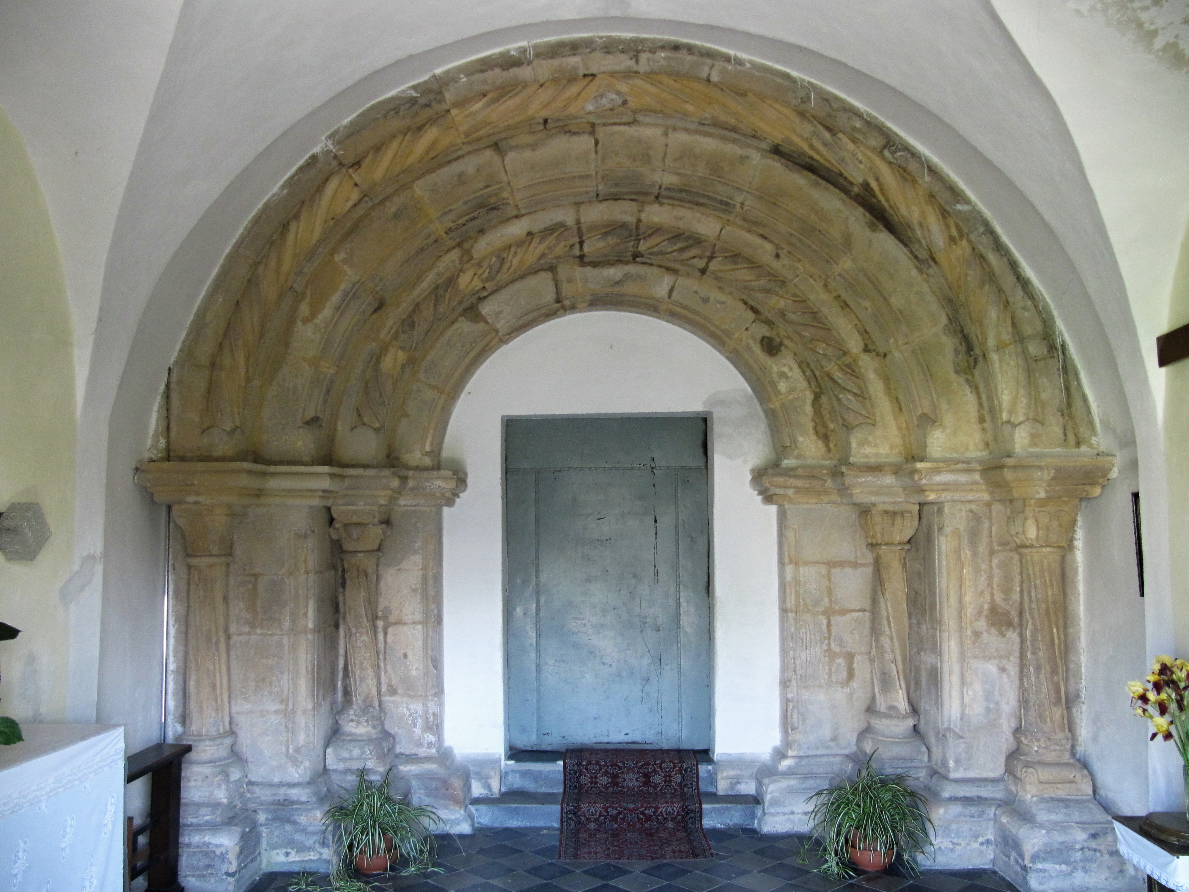 Church of Saint Wenceslaus in Hulín